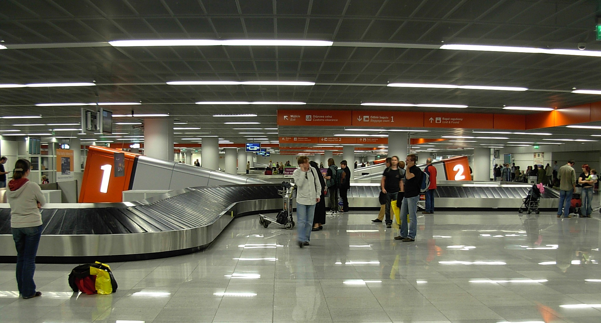 Terminal 2 of the Warsaw Okecie Airport, baggage reclaim area